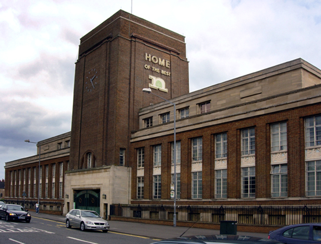 Home Brewery office building, Daybrook, Notts. Scottish and NEwcastle bought Home Breweries in 1896 and closed the brewery in 1996. The brewery buildings have been demolished and the office building is now council premises.